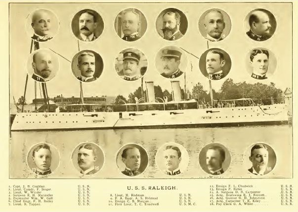 Black & White picture of the USS Raleigh in 1898 with cameos of her officers.